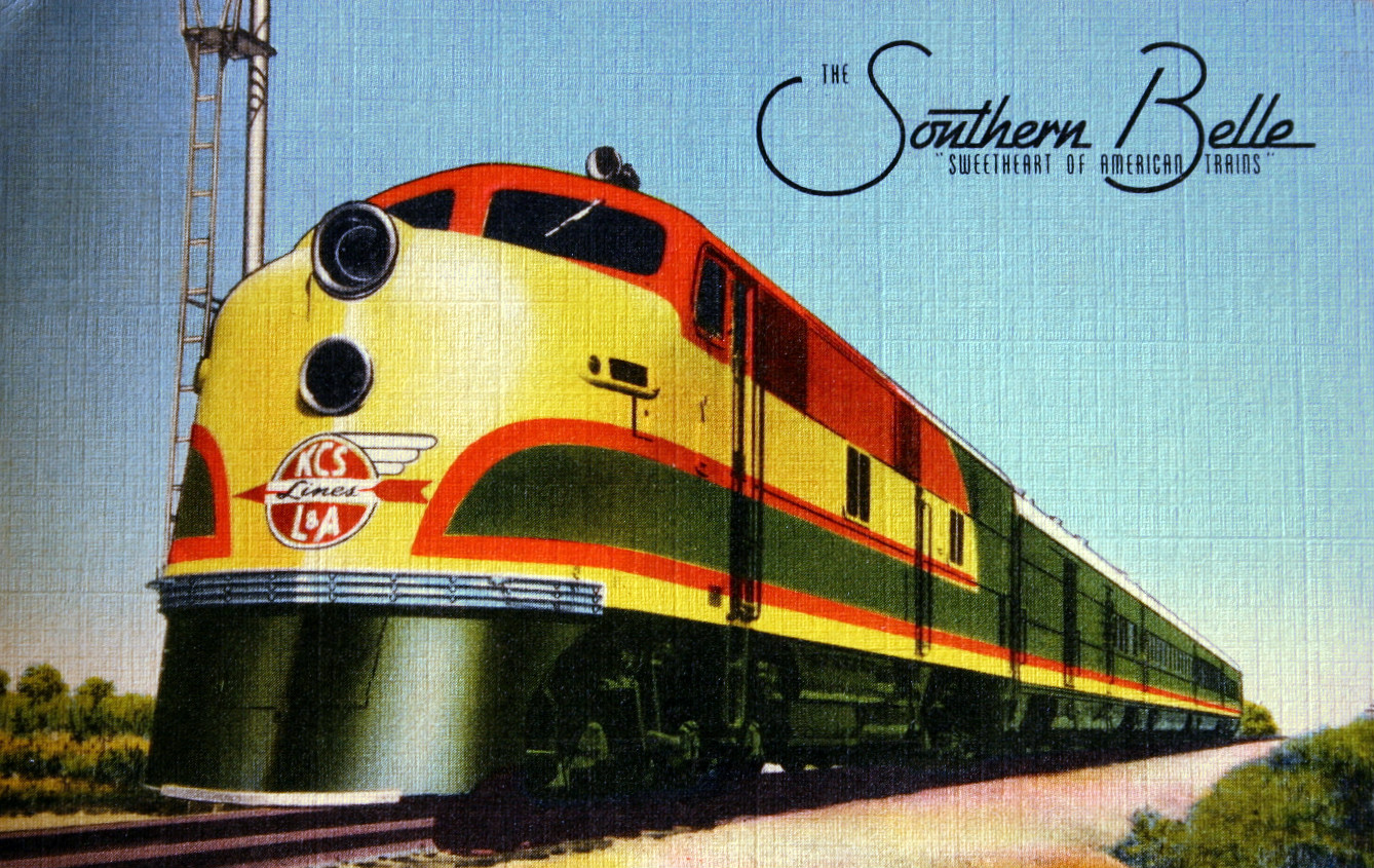 Postcard depiction of the Kansas City Southern train "Southern Belle" during the train's first year on the rails. The card shows the original paint scheme.